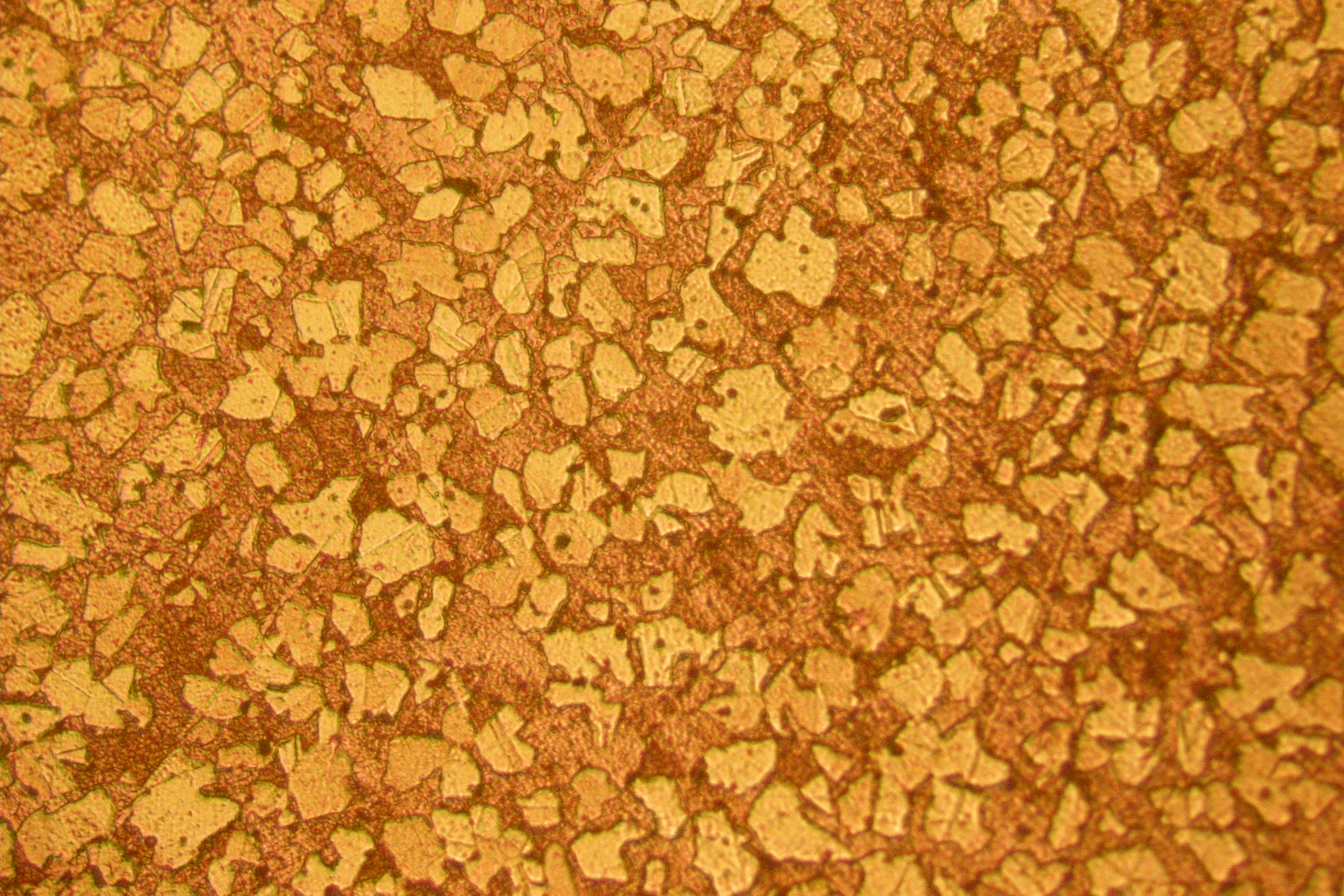 Cristalyne structure of Brass 10X